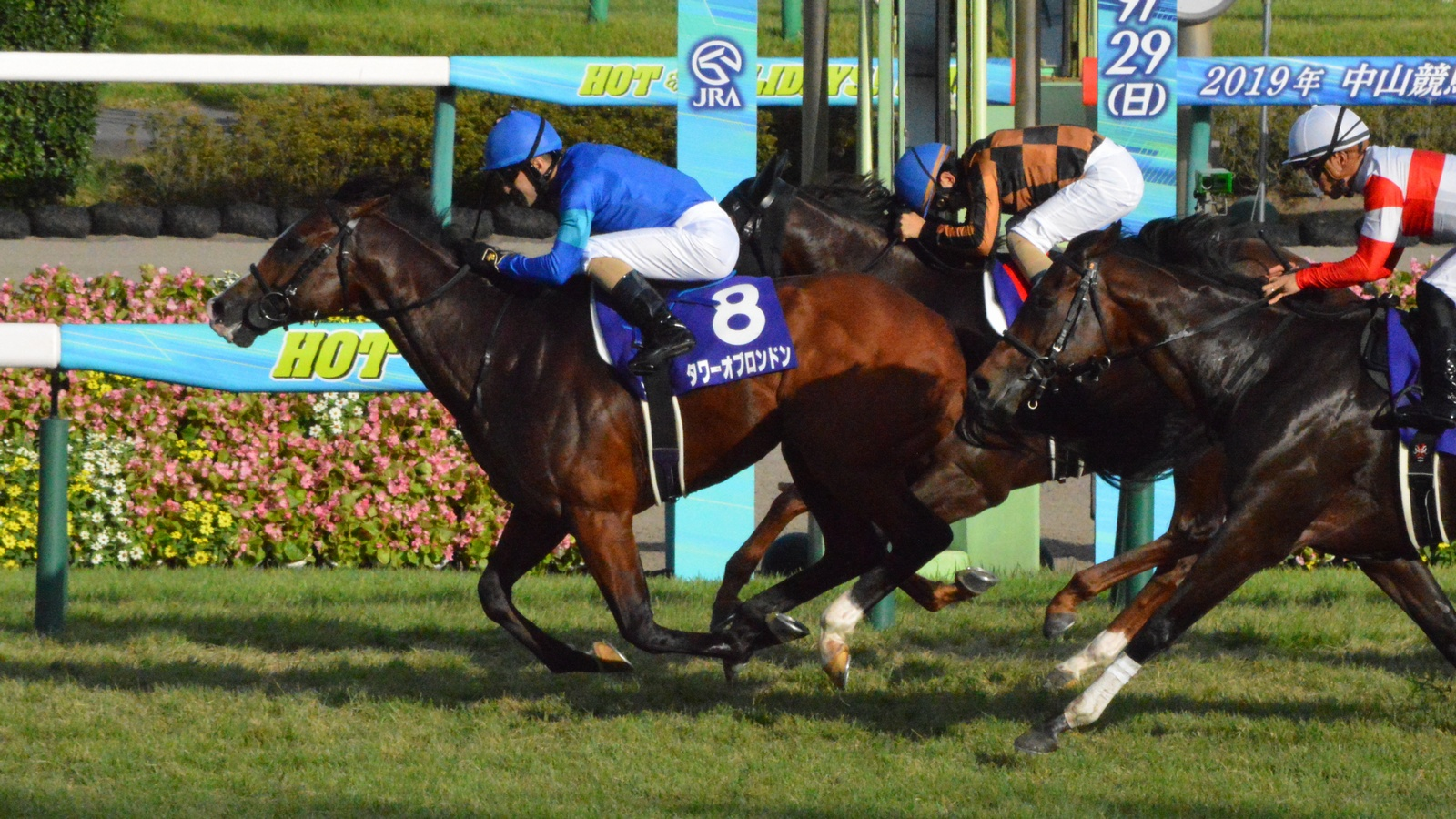 Japanese race horse Tower of London at Nakayama racecourse.